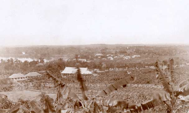 Léopoldville / Kinshasa in 1896